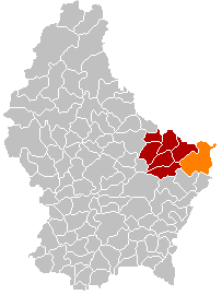 Map of the luxembourgish municipality Rosport-Mompach, after merger of former municipalities Rosport and Mompach. The merger takes effect on 2018-01-01.